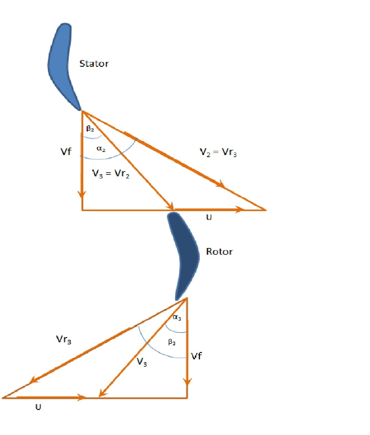 Velocity triangle relates the fluid inlet and outlet velocity for the case when degree of reaction is half, in a turbine.